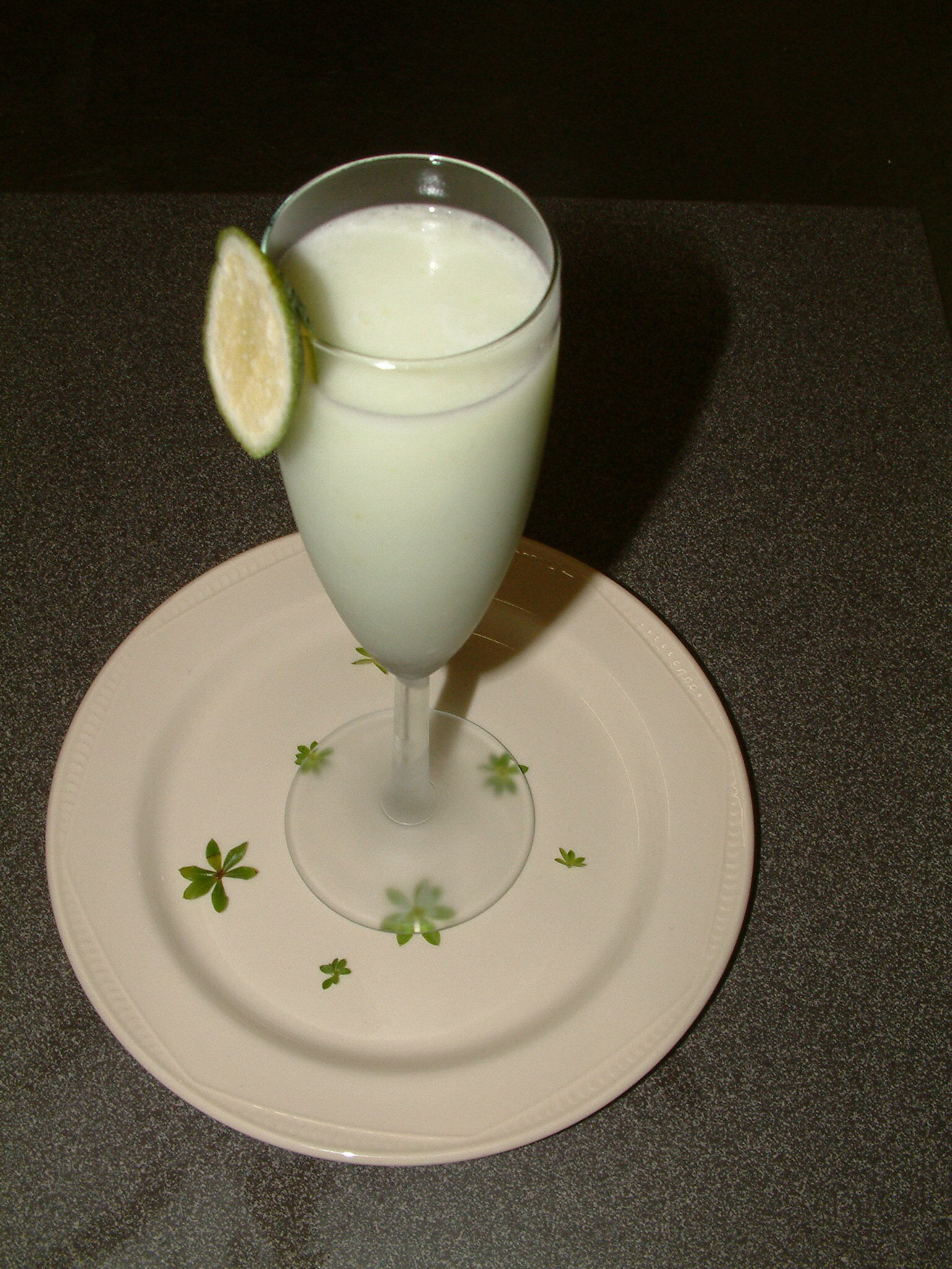 A glass of lime-flavored spoom. Photo taken at the De Drie Balken restaurant in Nes, Ameland, in the West Frisian Islands of the Netherlands. Photo taken with a digital camera.